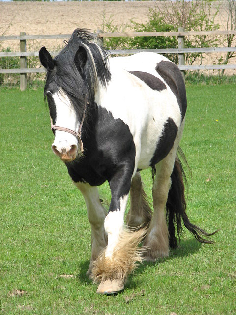 Piebald horse with hairy legs. In paddock beside Bessingham Road. See 783288 for a wider view; the horse can just be glimpsed in the nearest paddock seen here.